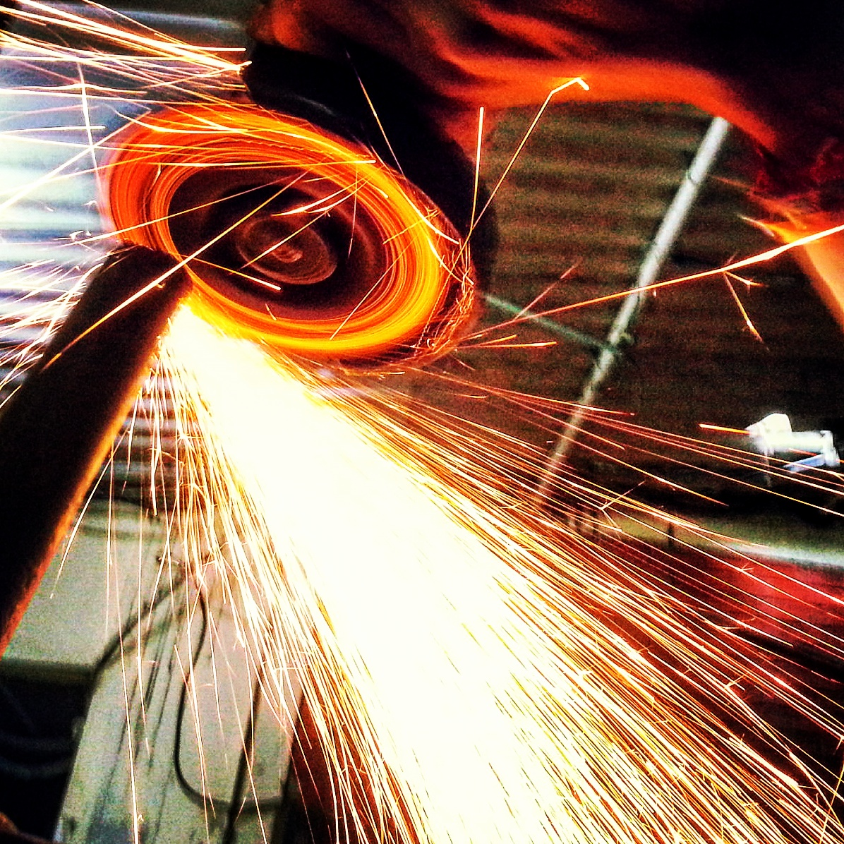 BAJA ATV Metal work